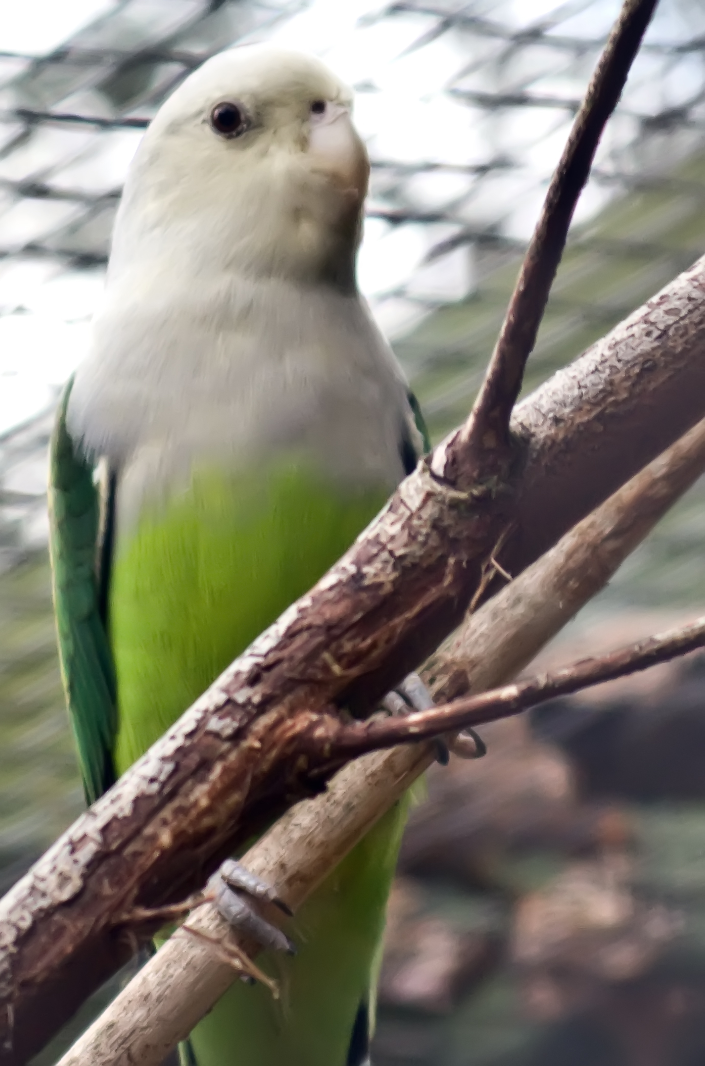 A male Grey-headed Lovebird at Beale Park, Berkshire, England.